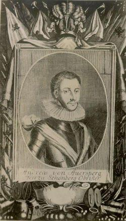 Andrej Turjaški (Auersperg) (1557-1594), general and commander in battle of Sisak